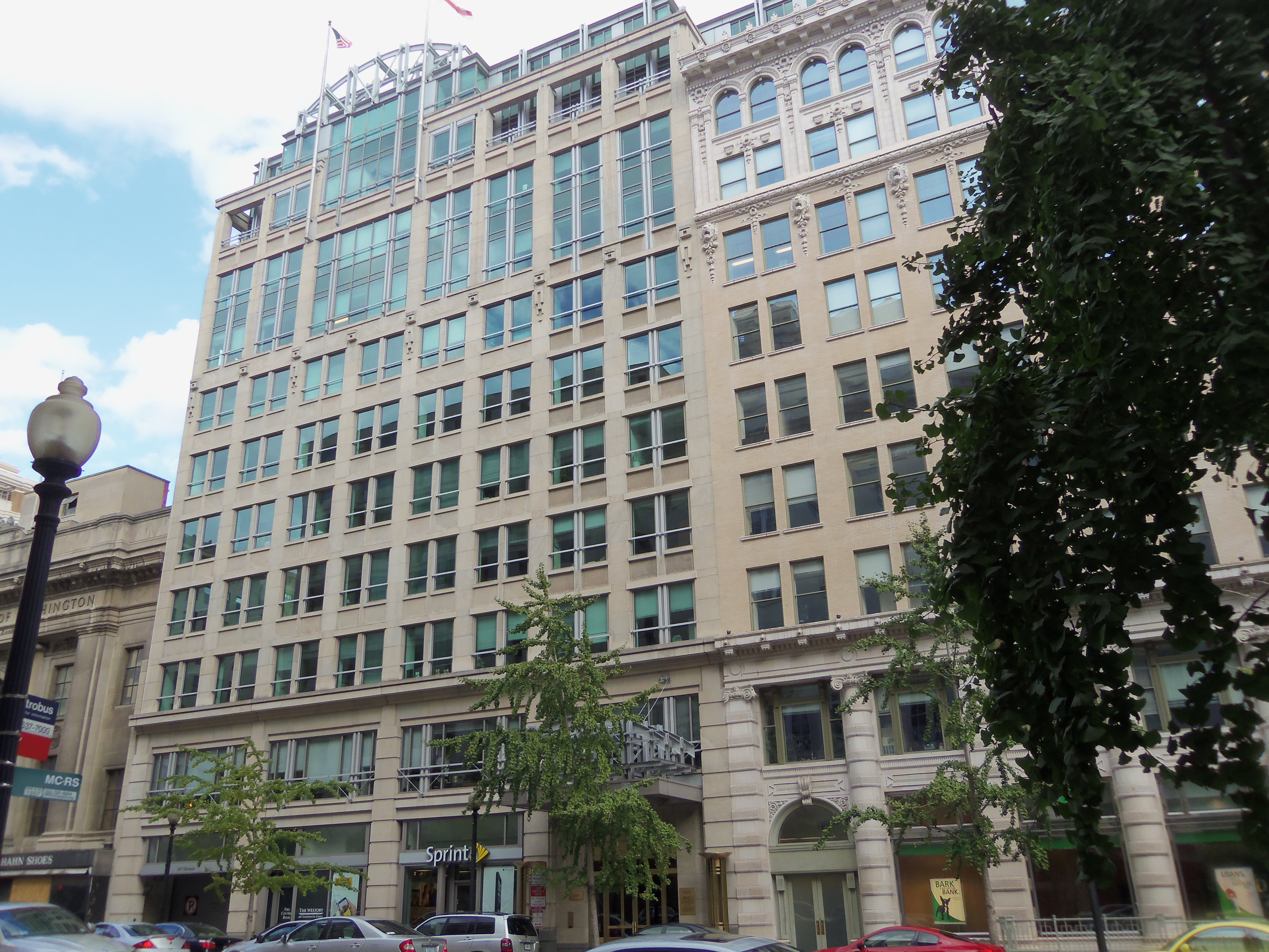 The Westory Building in downtown Washington, DC. This section of the building is an expansion that was completed in 1990.